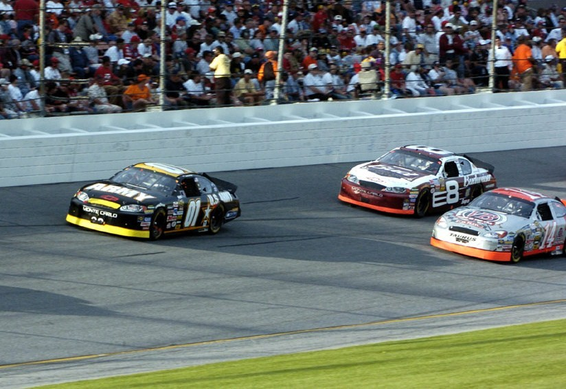 Joe Nemechek at Daytona